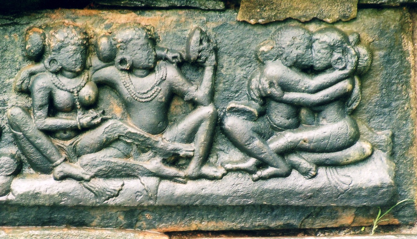 Photograph taken by self (Dinesh Kannambadi) at Tripurantakesvara temple in Balligavi, Shimoga district, Karnataka state, India